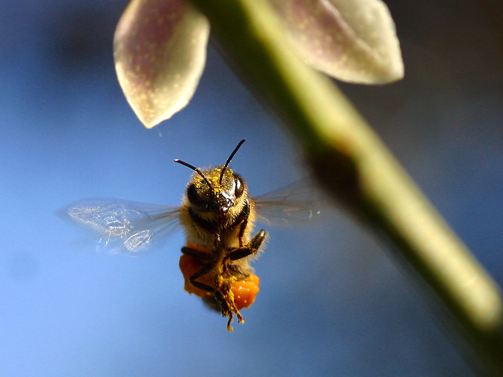 A bee buzzing around the lemon tree on my balcony